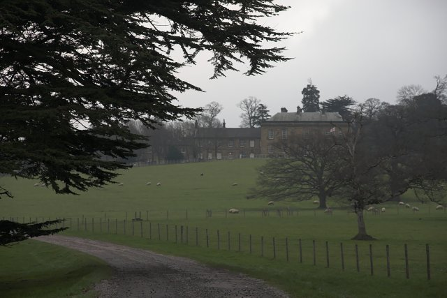 Busby Hall In its extensive parkland setting, Busby Park.